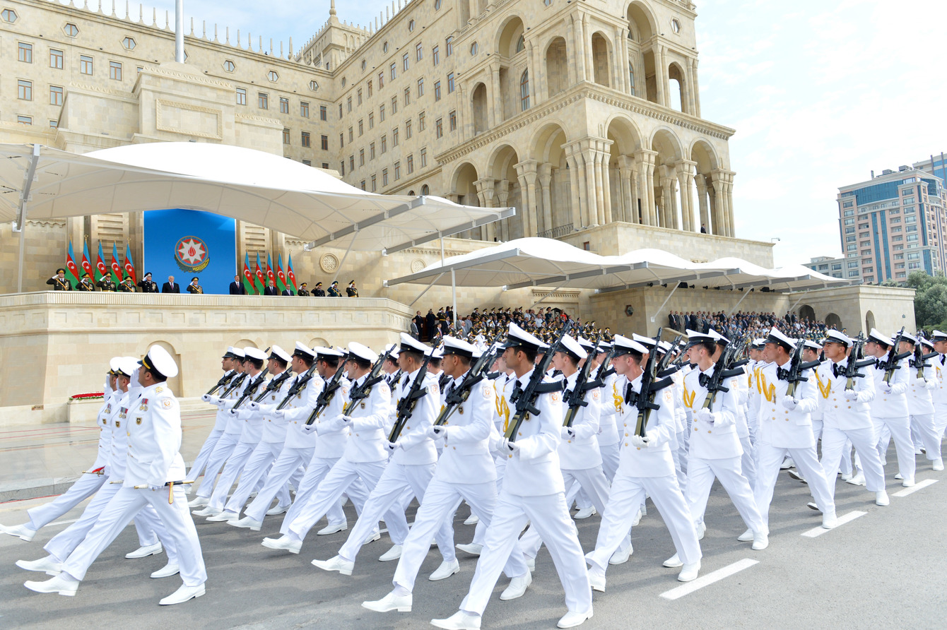 Ilham Aliyev attended the official military parade on the occasion of the 95th anniversary of the Armed Forces